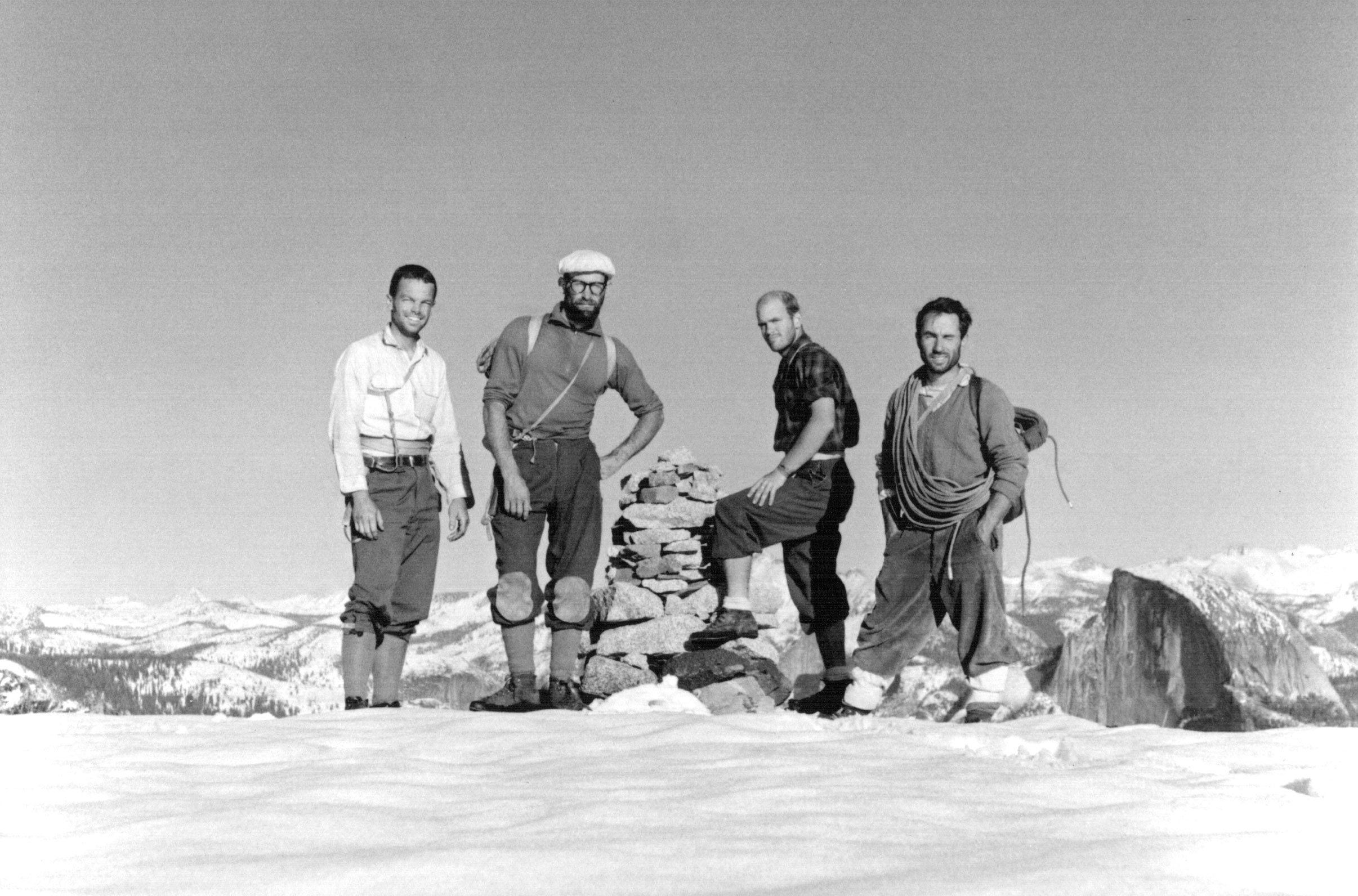 Photo of rock climbers (L to R): Tom Frost, Royal Robbins, Chuck Pratt and Yvon Chouinard on the summit of El Capitan on 30 October 1964, following the ten day ascent of the North America Wall, Yosemite National Park, California.